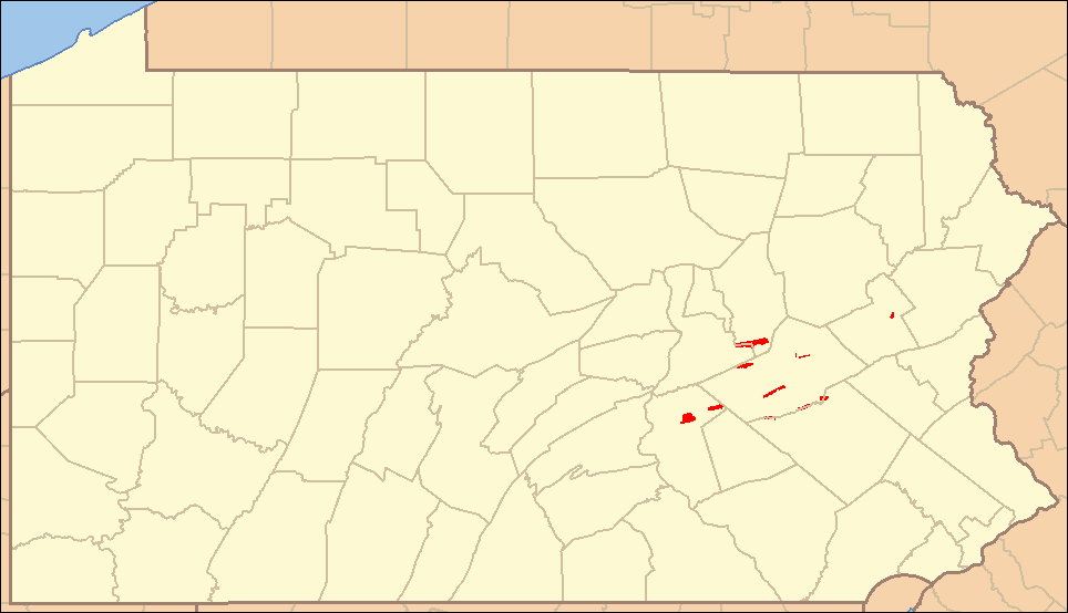 Locator Map of Weiser State Forest, Pennsylvania, United States